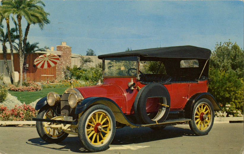 1915 Stevens Duryea Automobile, Silver Motors 657 South Atlantic Blvd., East Los Angeles, California